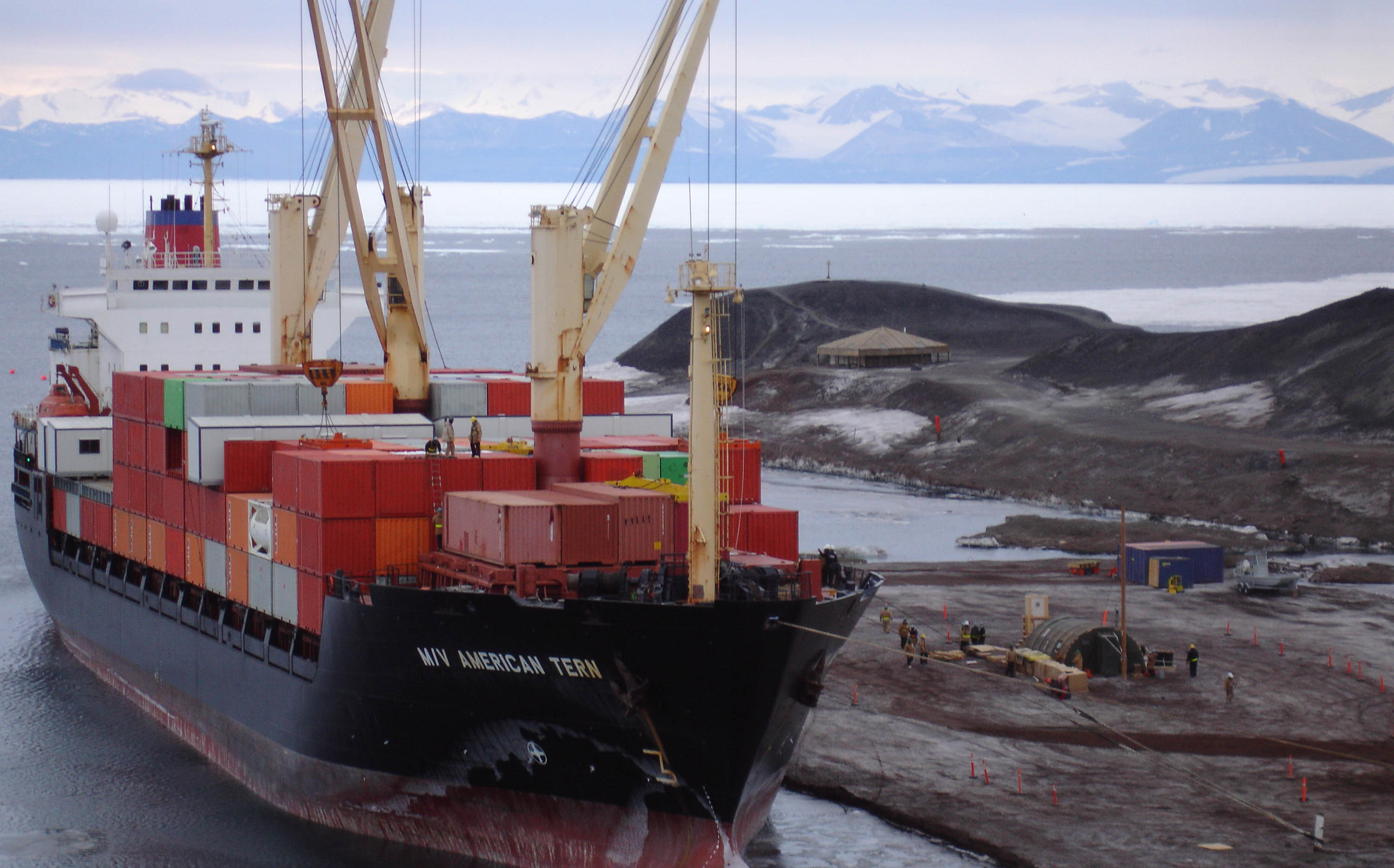 McMurdo Station, Antarctica (Feb. 4, 2007) — Sailors assigned to Navy Cargo Handling Battalion One (NCHB-1) conduct cargo handling operations off the Military Sealift Command ice strengthen container ship MV American Tern (T-AK-4729) for the annual resupply mission for Operation Deep Freeze at McMurdo Station, Antarctica, Feb. 4–12. For more than 50 years the National Science Foundation has relied on the highly skilled Navy Cargo Handlers to ensure safe delivery of life-sustaining cargo for its research scientists and residents at McMurdo Station. Around the clock, in two 12-hours shifts, the sailors offload and load a cargo ship in Antarctica during the summer month of February, which provides continuous sunlight on the continent.